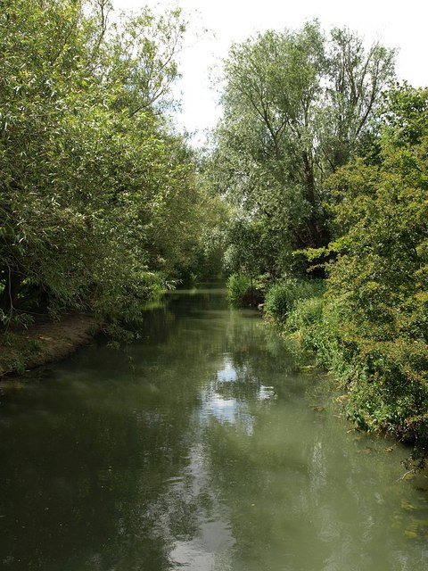 Bulstake Stream, a backwater of the River Thames in Oxford, England. A view from the bridge shown in 67677, as the stream approaches the camera and its junction with the Thames. A less placid view, rather further upstream, is shown in 309122.